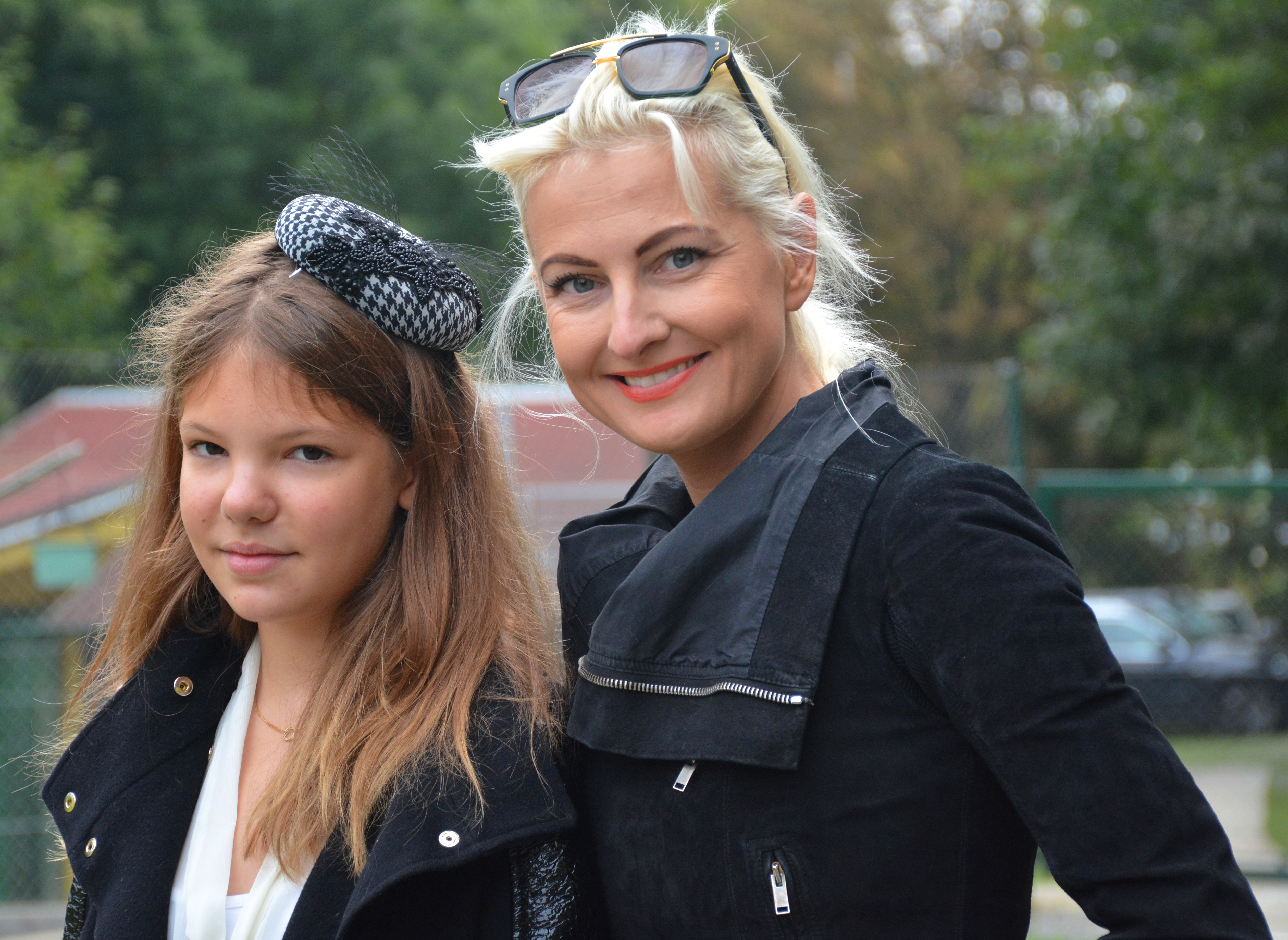 Bára Nesvadbová, Czech writer